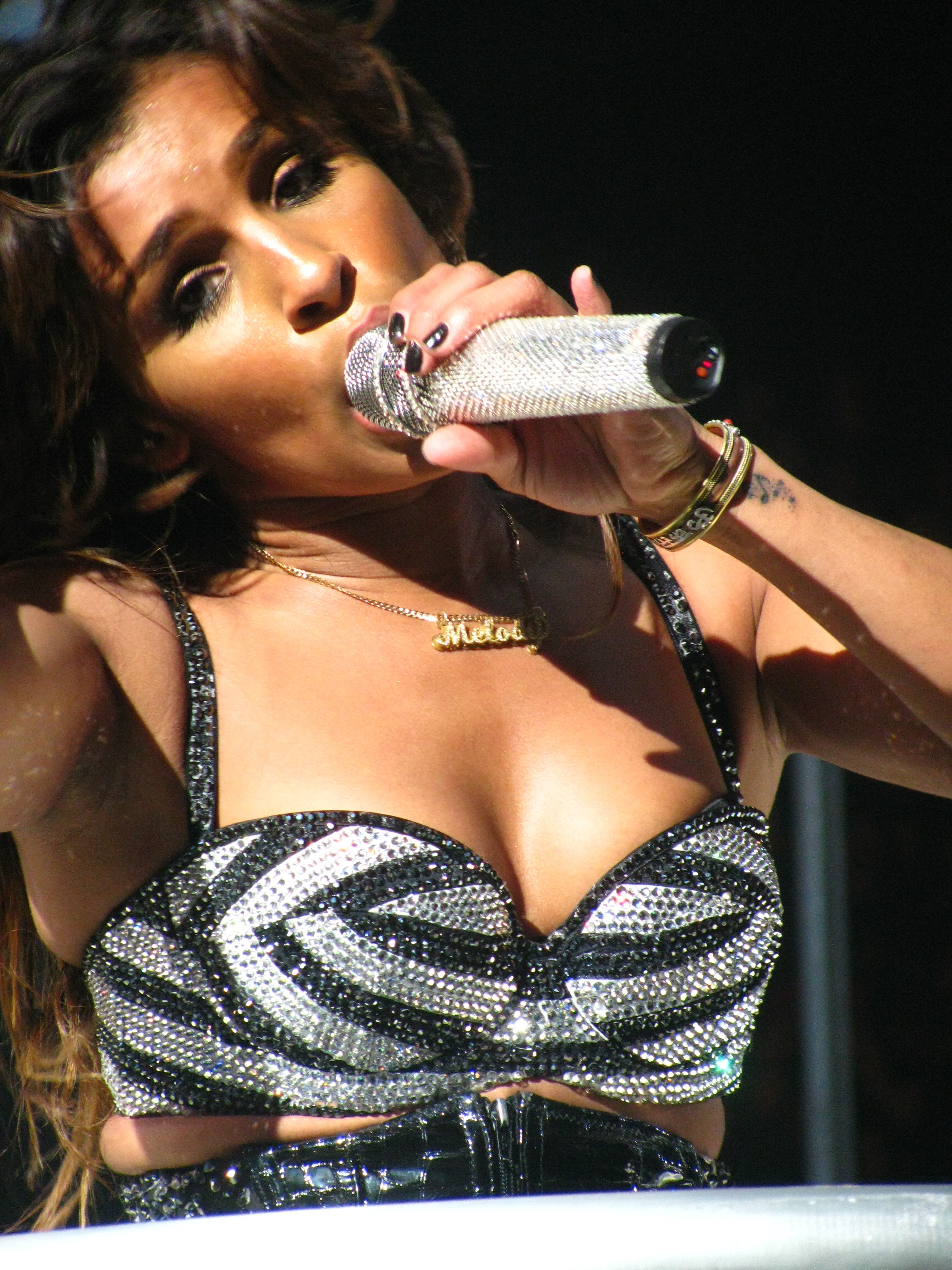 Thornton, 2009.